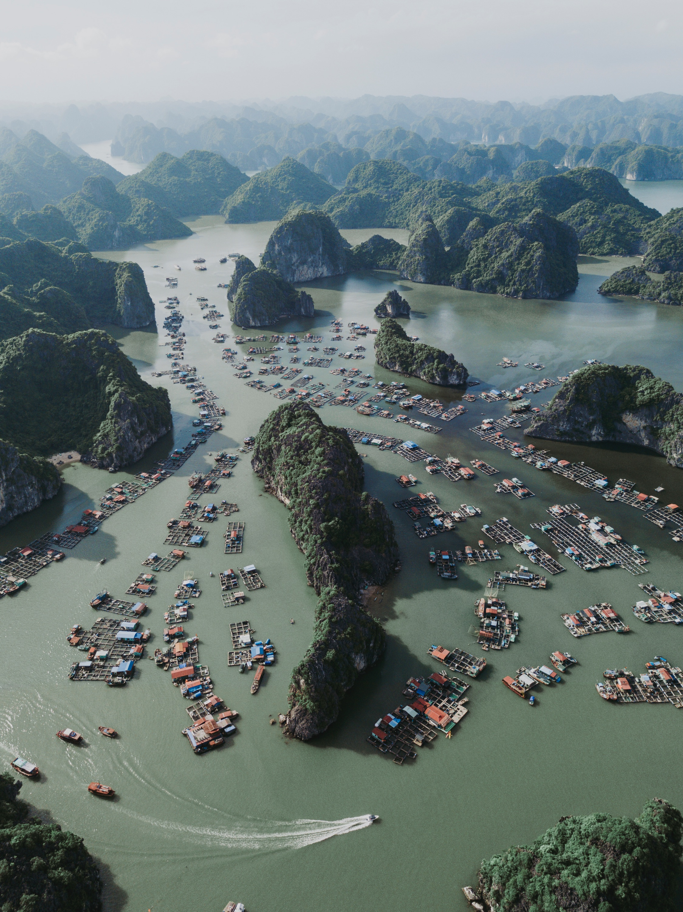 Cat Ba island fishing village